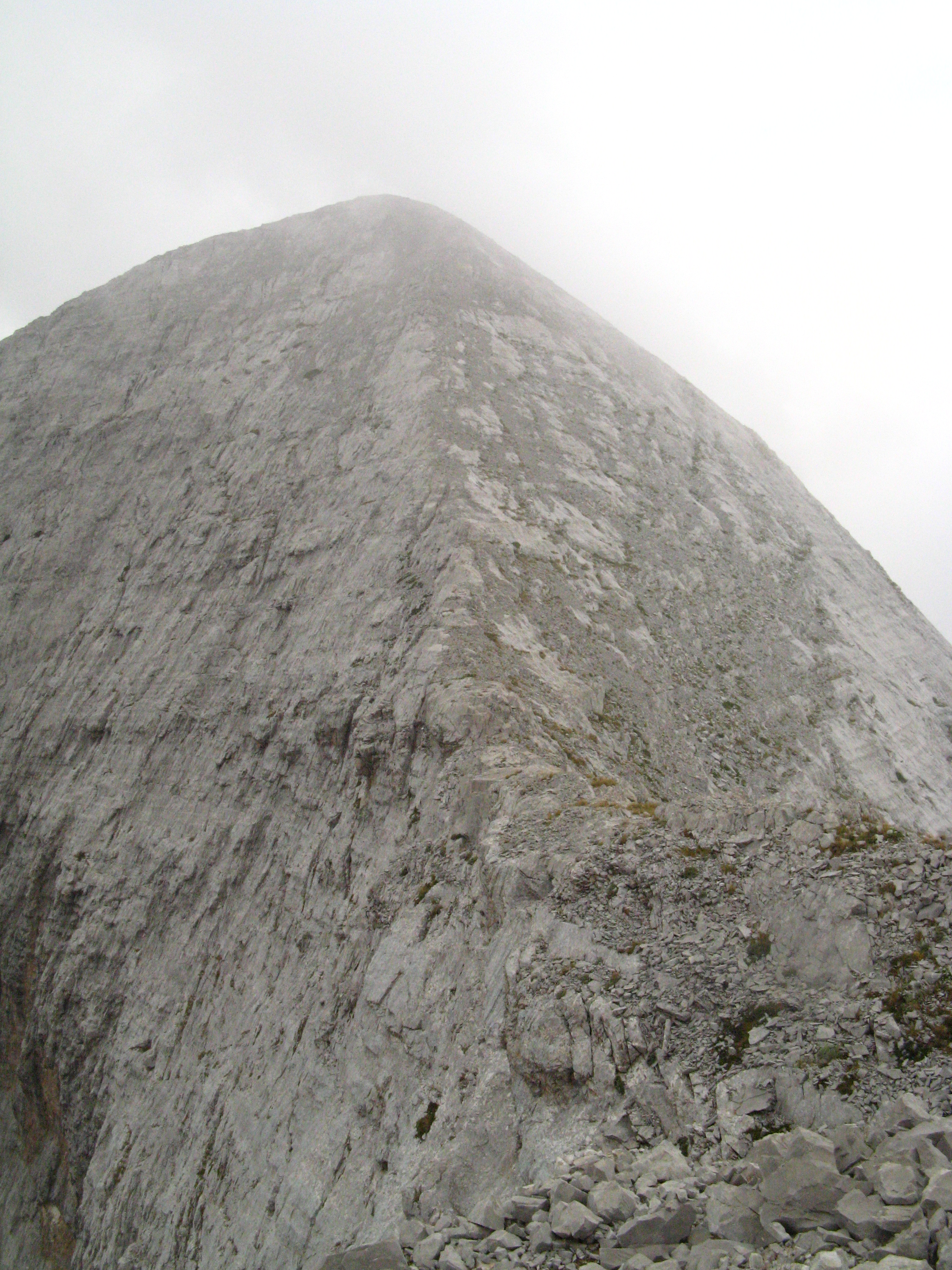 Radohinës peak